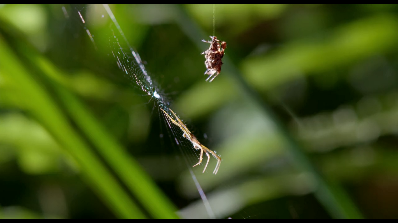 portia hunts a spider